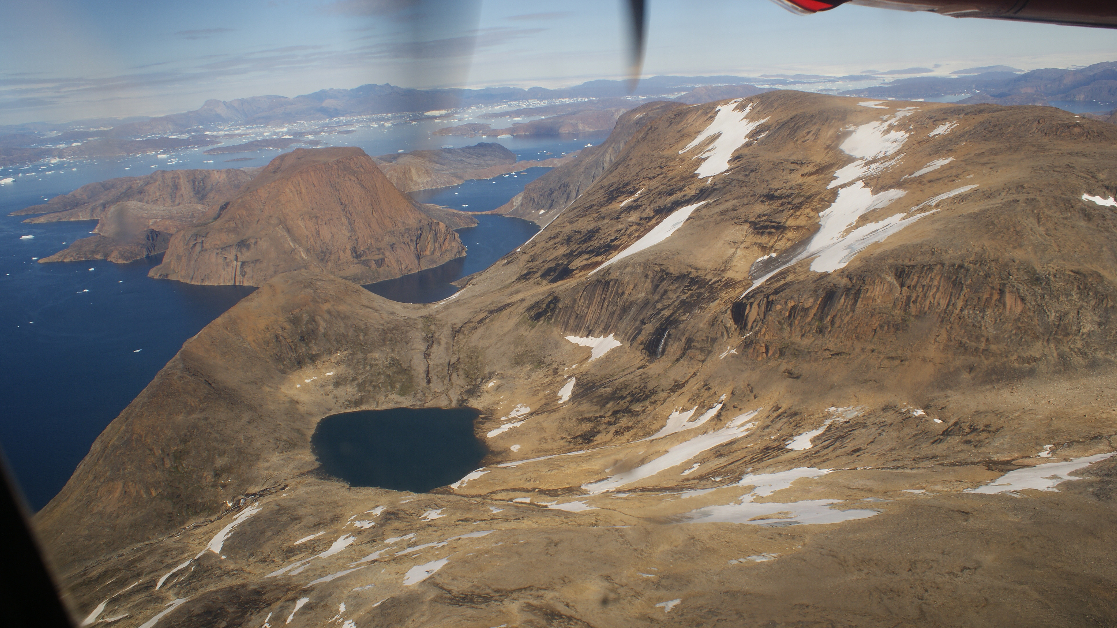 Aerial view of Umiassussuk Mountain on Qaarsorsuaq Island, Upernavik Archipelago, Greenland.